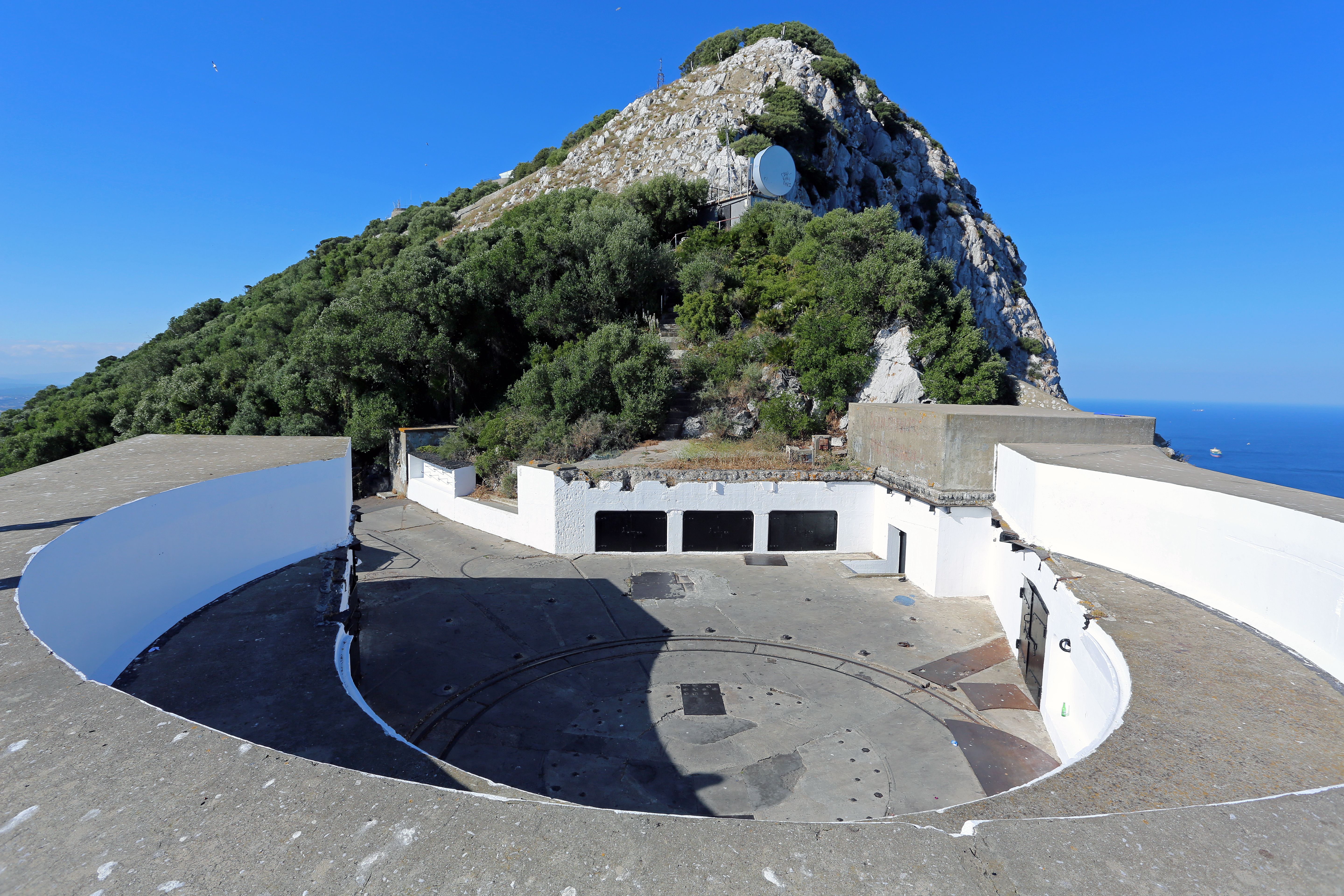 A 9.2 inch Coastal Defence Gun was originally sited at Spur Battery below O'Hara's Battery was dismantled and relocated at the Imperial War Museum at Duxford as part of Projects Vitello I which involved the dismantling of the Gibraltar Gun at Gibraltar and transportation to the UK and Project Vitello II which involved its subsequent reconstruction at Duxford. Full details can be obtained from O'Hara and Lord Airey's Batteries are two of three surviving 9.2 inch Coastal Defence Gun emplacements in Gibraltar. The third emplacement is located at Breakneck Battery which continues to under the ownership of the Ministry of Defence and inaccessible. The 9.2 inch Coastal Defence Guns at O'Hara's, Lord Airey's and Spur Batteries had a range of 29,600 yds which easily covered both the Straits of Gibraltar (25,500 yds) and the Bay of Gibraltar (9,000 yds).